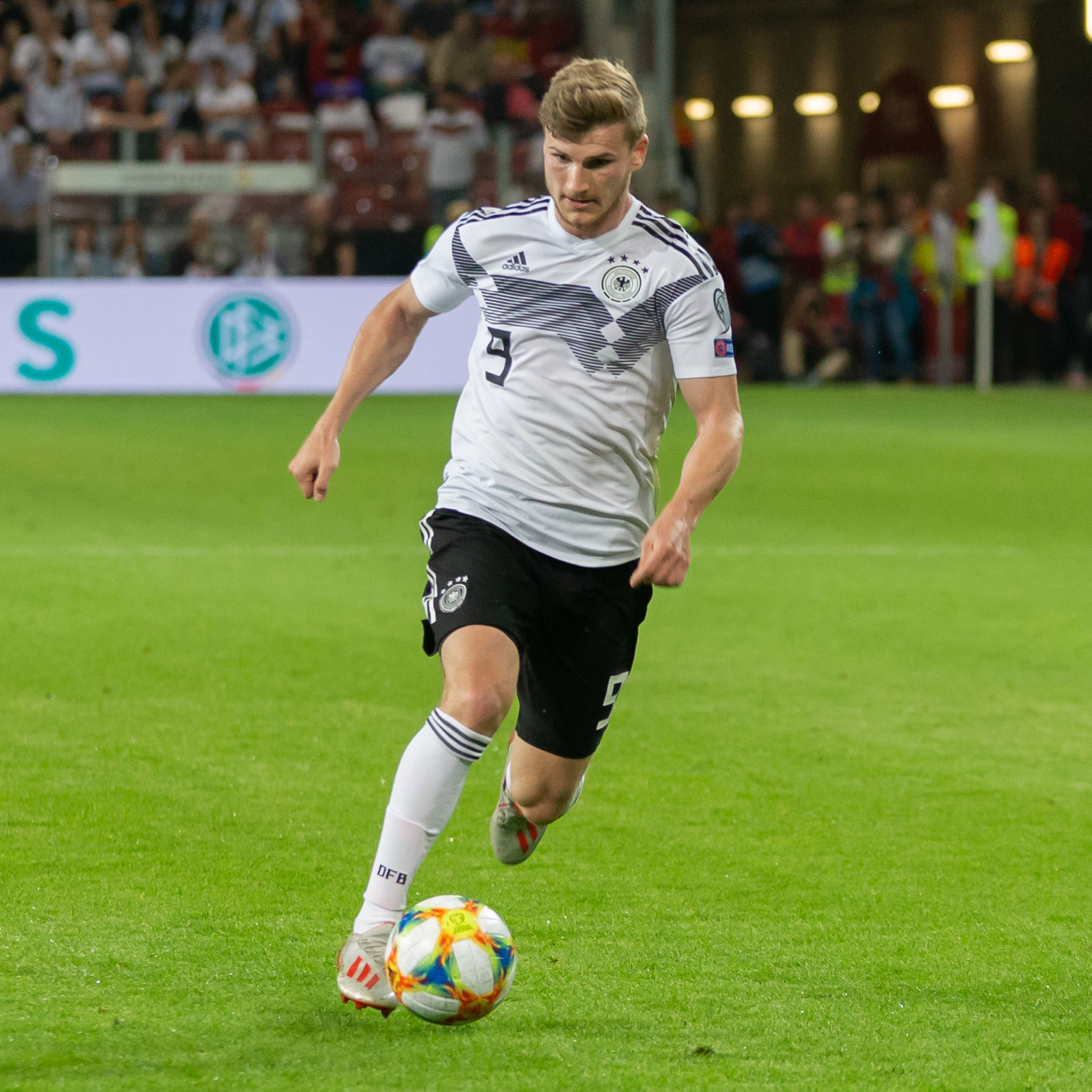 UEFA Euro 2020 qualifier Germany-Estonia